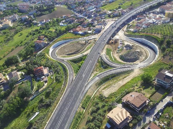 circonvallazione pescara